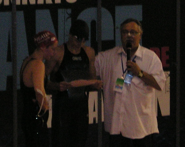 French Swimming Championships, Montpellier, 26 April 2009 afternoon: after the 1500 meters Women with two competitors only, Michel Salles (right) the official presenter gave the timetable of their race to Camelia Potec (center, new European record) and Coralie Codevelle (left).